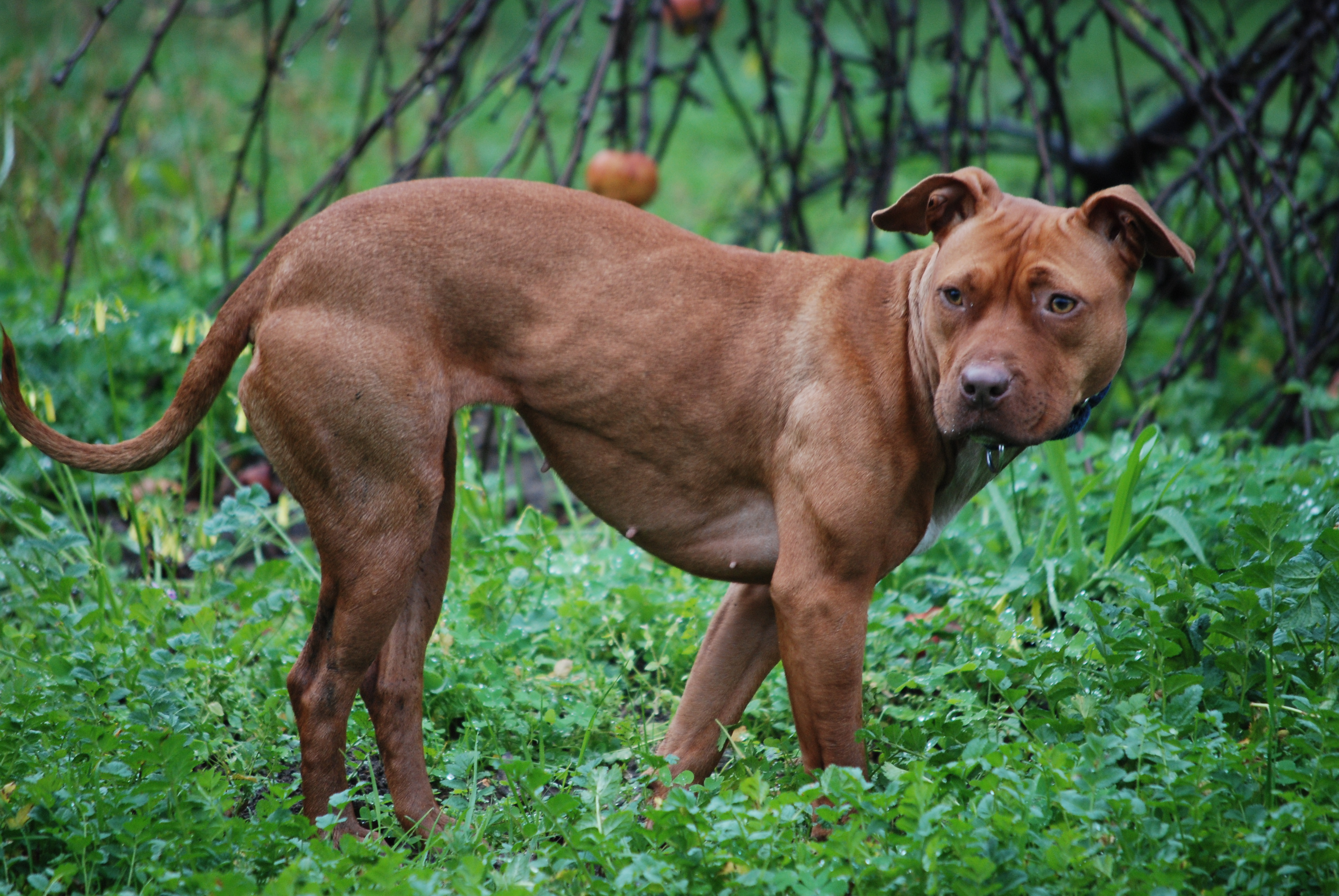 American Pit Bull Terrier dog